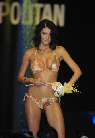 Orsi Kocsis at Cosmopolitan-Bikinishow, Budapest, Hungary